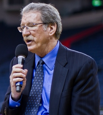 Golden State Warriors television analyst Jim Barnett conducts an interview in 2011.